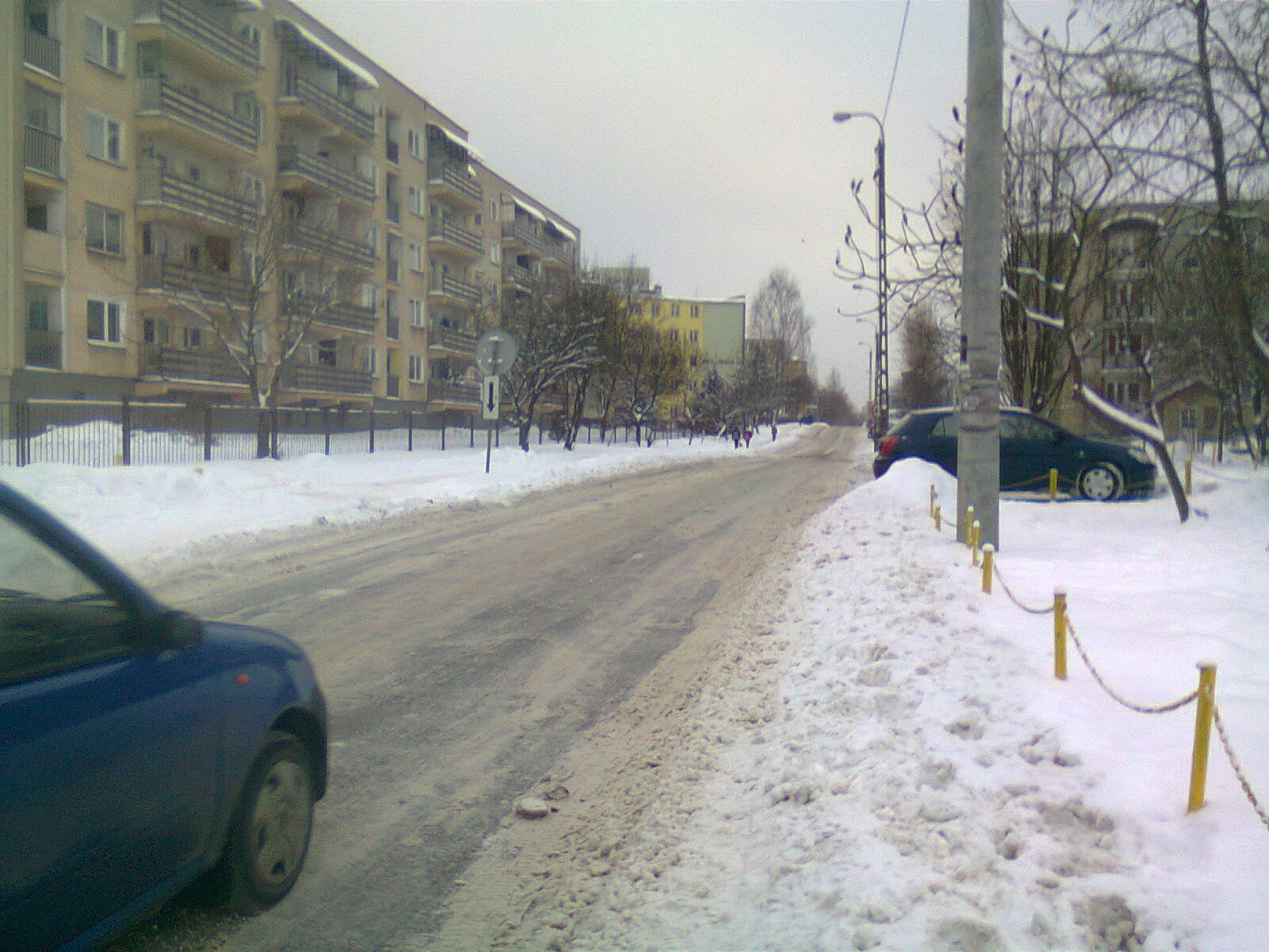 Licealna street in Augustów